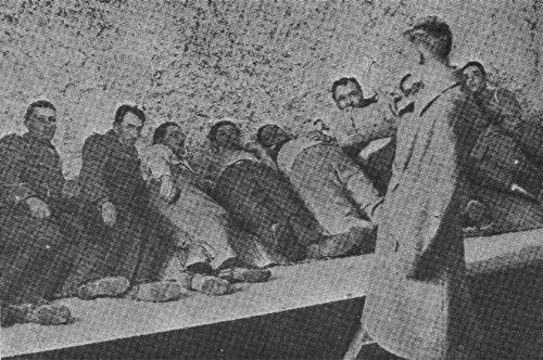 Reconstituirea asasinatelor de la Jilava - legionarul Marcu Octavian arată cum i-a executat pe prizonieri